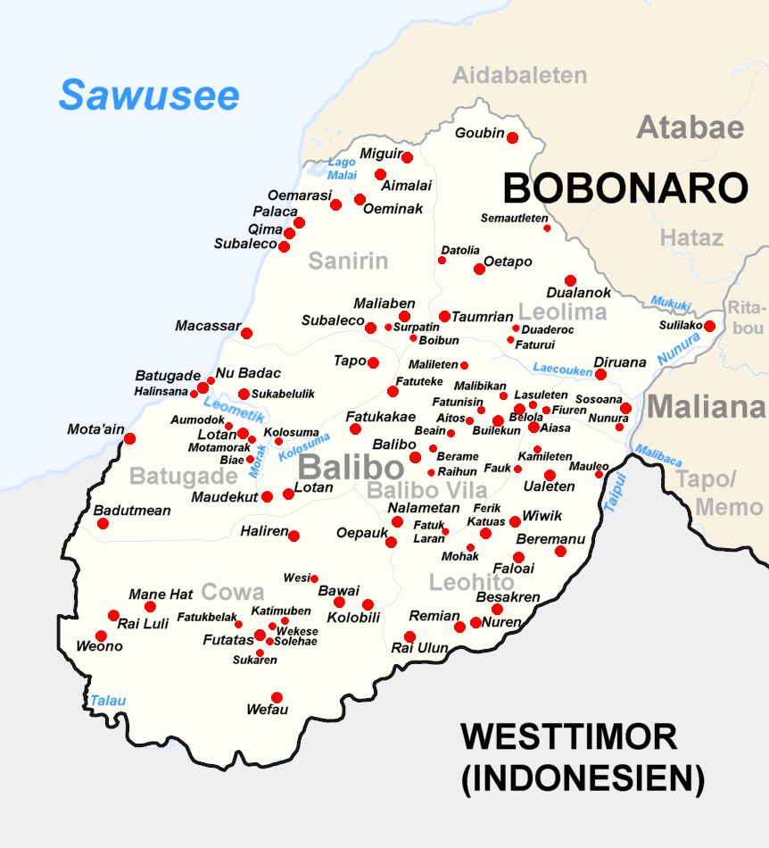 The administrative post of Balibo, municipality Bobonaro, East Timor